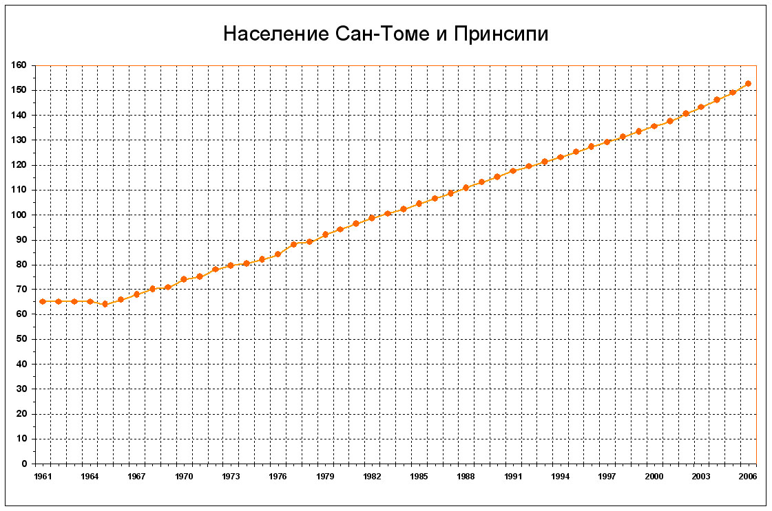 Population history in Sao Tome and Principe